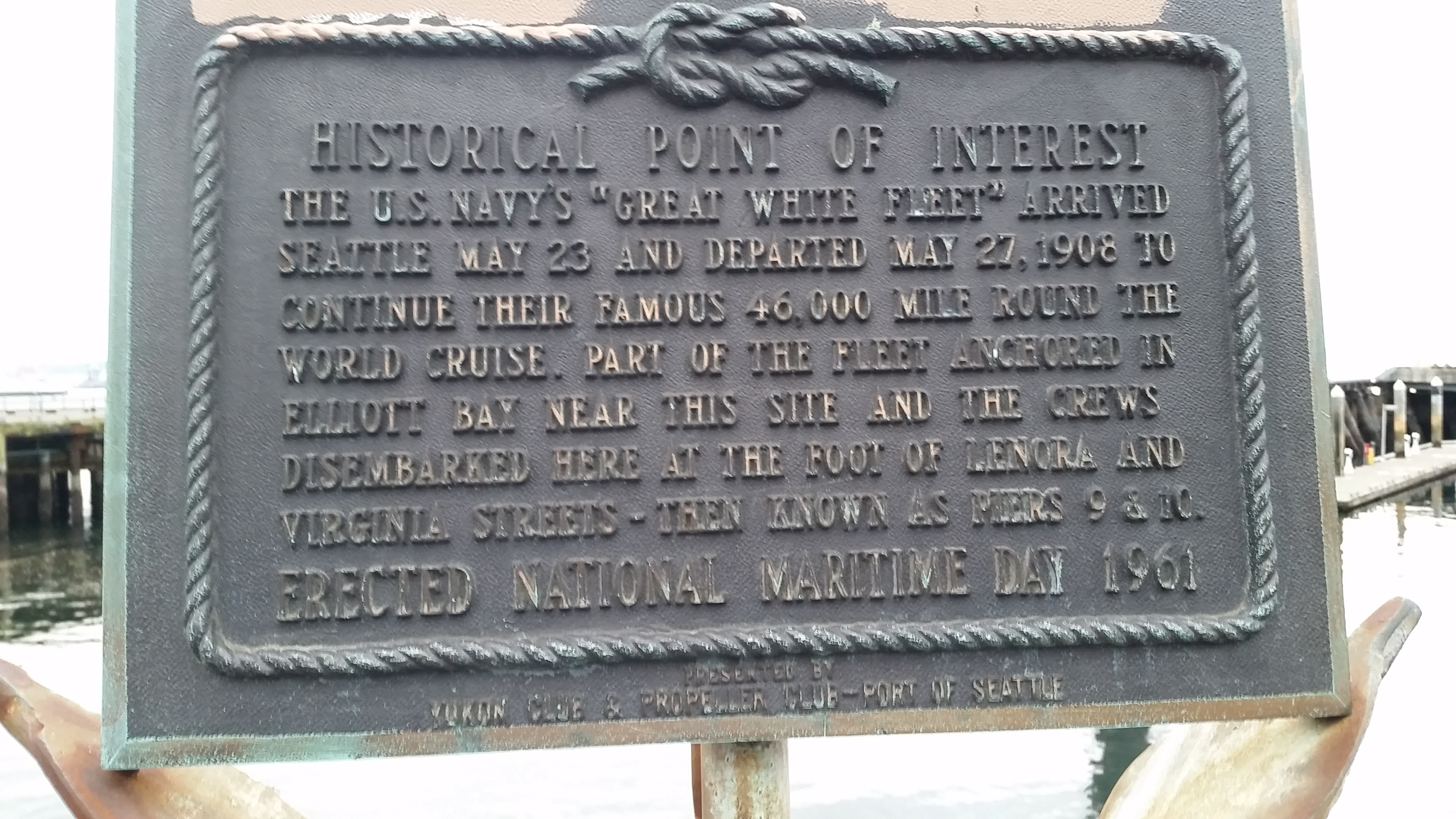 A picture of a Seattle sign that marks the 1908 arrival of the Great White Fleet. It says "HISTORICAL POINT OF INTEREST The U.S. Navy's "Great White Fleet" arrived seattle May 23 and departed May 27, 1908 to continue their famous 46,00 mile round the world cruise. PArt of the fleet anchored in Elliott Bay near this site and the crews disembarked here at the foot of Lenora and Virginia Streets - then known as piers 9 & 10. ERECTED NATIONAL MARITIME DAY 1961 presented by Yukon club & Propeller Club - Port of Seattle"